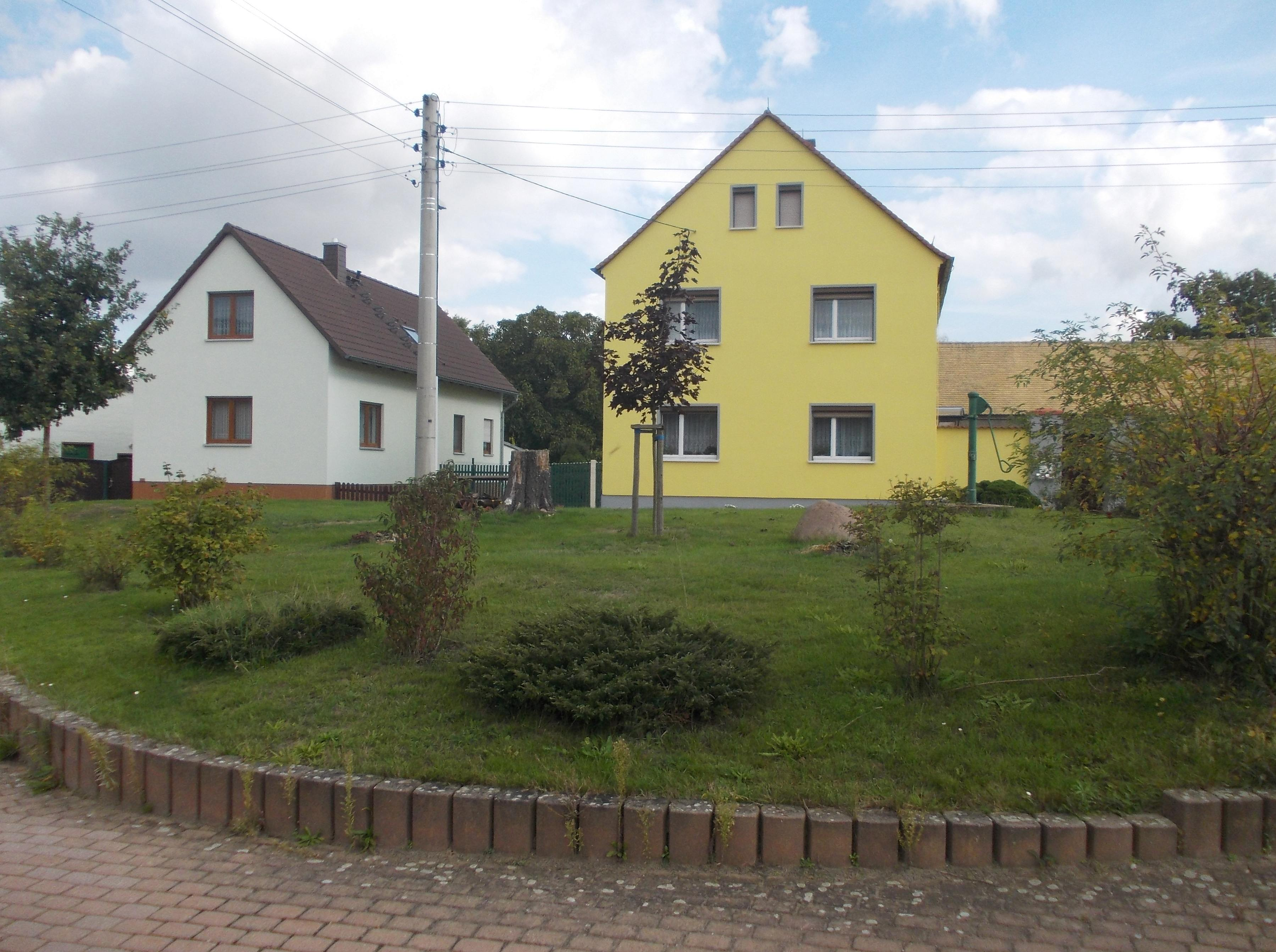 In Kossen (Jesewitz, Nordsachsen district, Saxony)